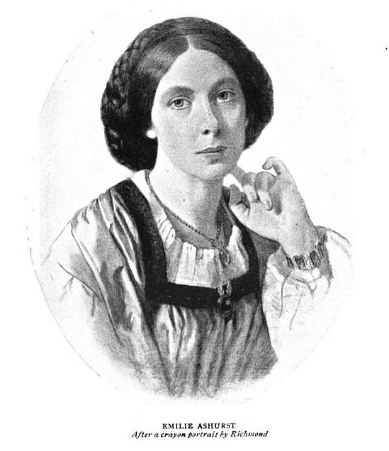 Emilie Ashurst as a young woman, probably drawn by George Richmond, published in E.F. Richards, Mazzini's Letters to an English Family, vol I.